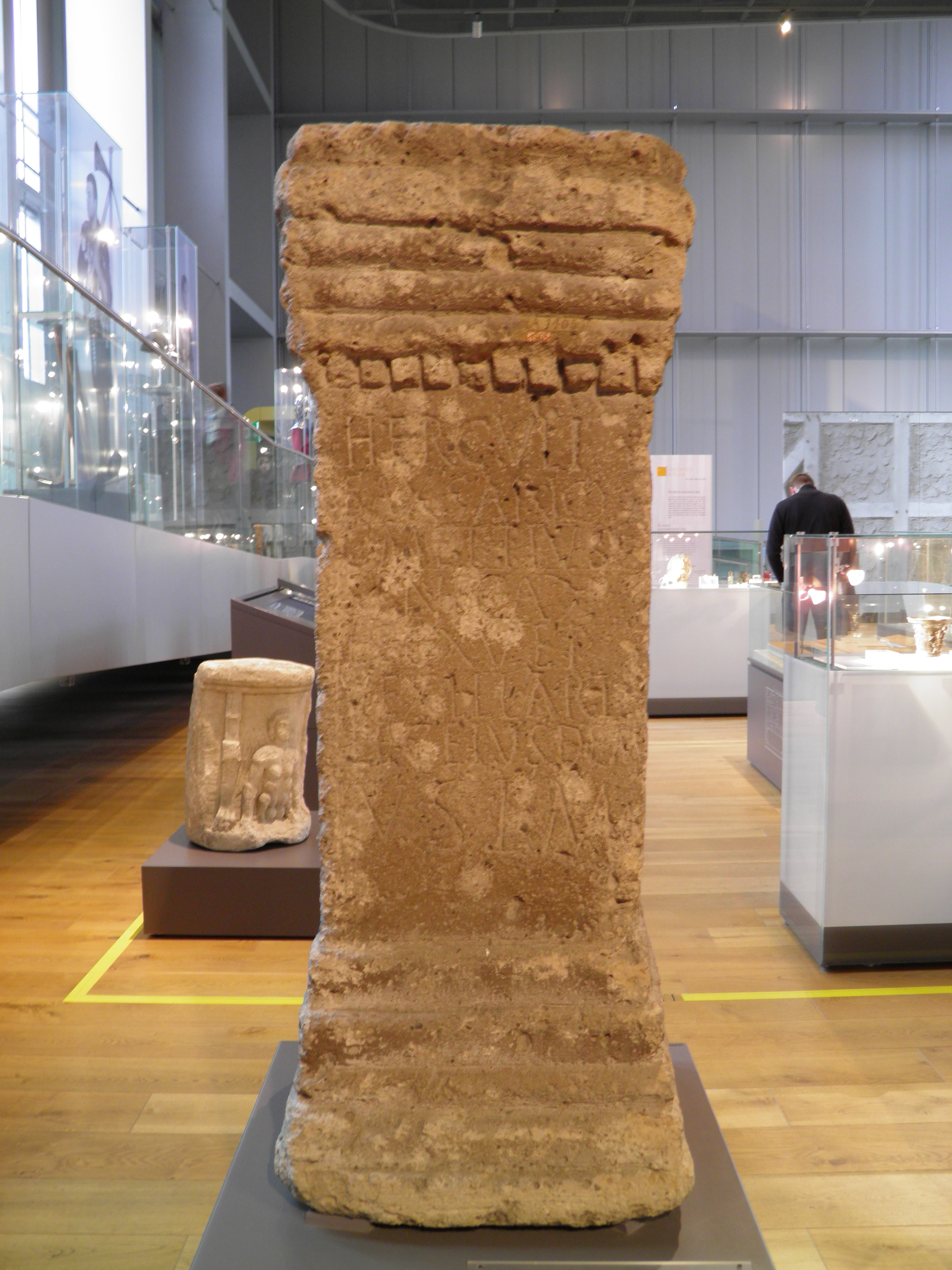 Altar dedicated to Hercules Saxsanus, Caius Mettius Seneca, centurion of the 15th Legion, Xanten, Germany